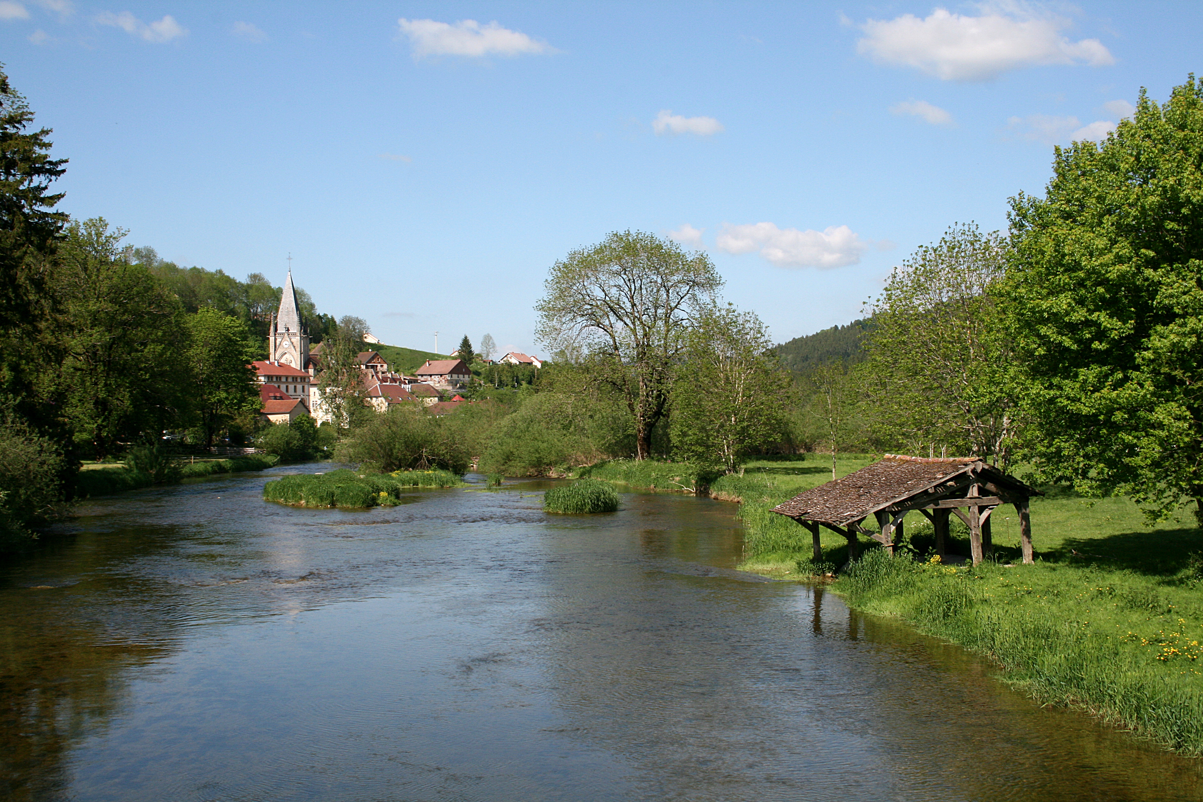 Montbenoît (Doubs (département) - France), the Doubs and the village.